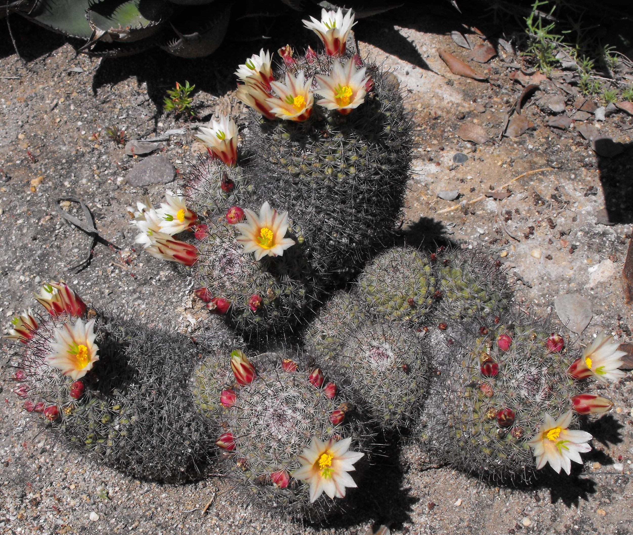 Mammillaria dioica in the Whitaker Garden at Torrey Pines State Reserve, San Diego, California, USA. Identified by sign.